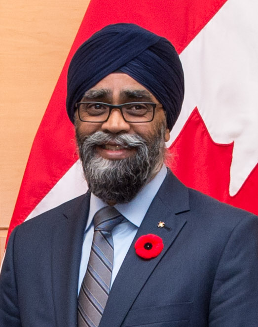 Canada's Defense Minister Harjit Sajjan at the NATO Headquarters in Brussels, Belgium.